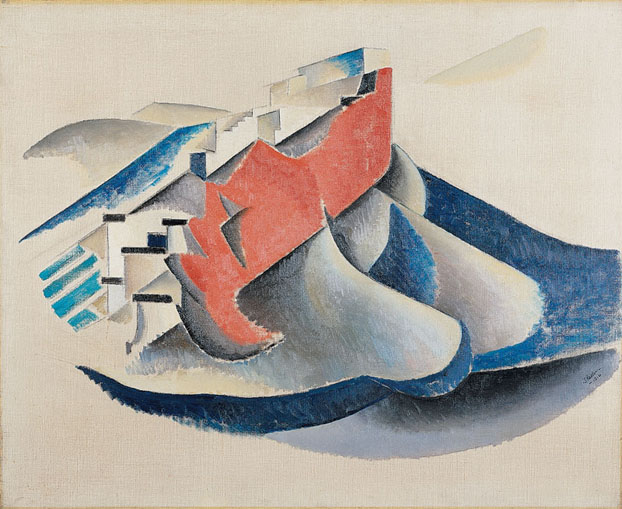 Painting of the cubism period of Charles Sheeler